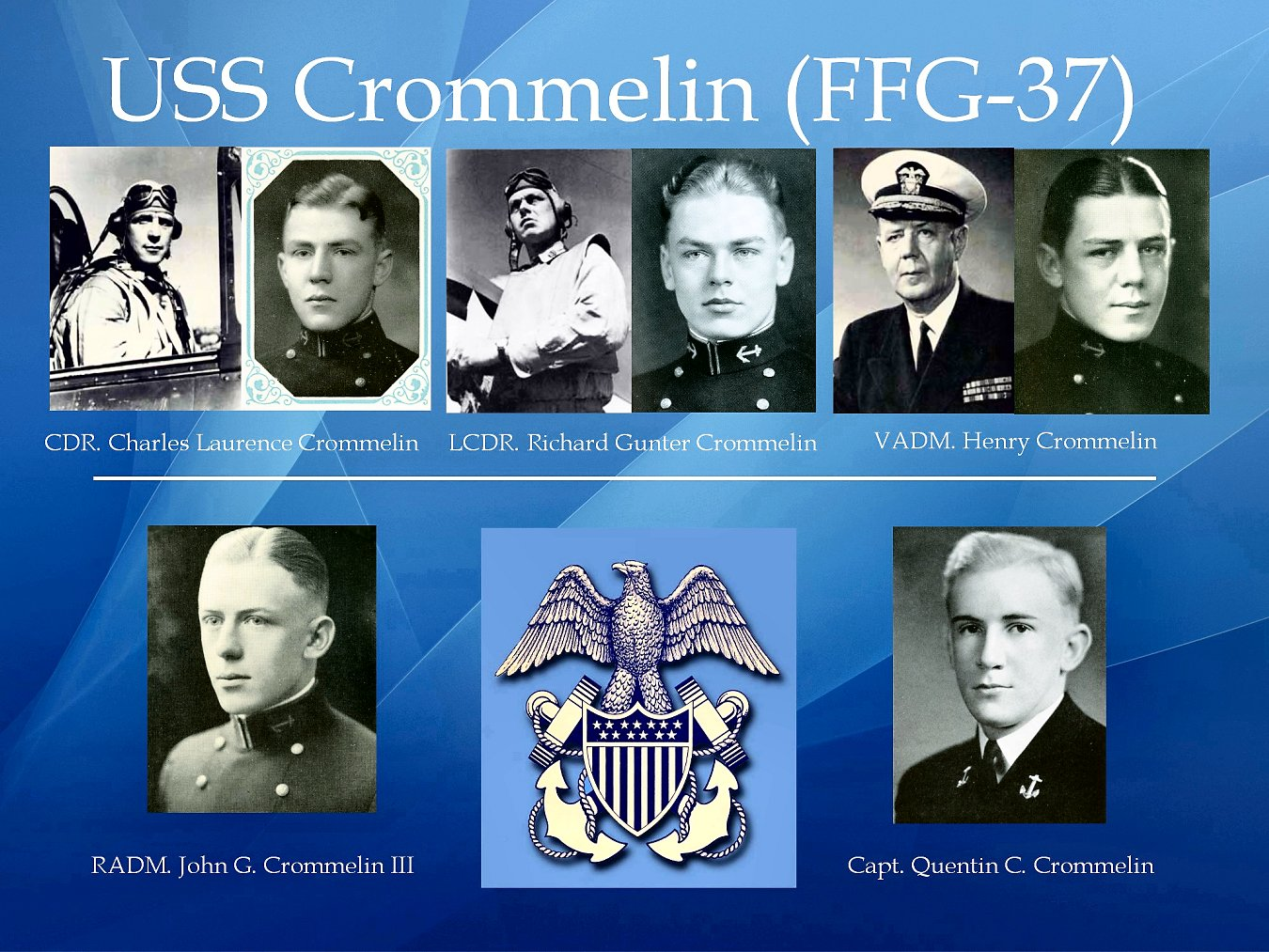 USS Crommelin (FFG 37), twenty-eighth ship of the Oliver Hazard Perry-class of guided-missile frigates, is named for three brothers: Vice Admiral Henry Crommelin (1904-1971), Commander Charles Crommelin (1909-1945), and Lieutenant Commander Richard Crommelin (1917-1945). The other brothers are Rear Admiral John G. Crommelin III (1902-1996) and Captain Quentin C. Crommelin (1919-1997). Born of a pioneer Alabama family in Montgomery and Wetumpka, the Crommelin brothers were the only five siblings ever to graduate from the U.S. Naval Academy. Four of them became pilots, and Time magazine dubbed them "The Indestructibles." The brothers saw action in more than ten campaigns in the Pacific Theater. Henry, the oldest, became a Surface Warfare Officer while Richard and Charles died in combat as naval aviators in 1945. Individually and as a fighting family, they gained fame in World War II, attaining outstanding combat records and multiple decorations. Several books have been written about them and a monument commemorating their bravery rests in Battleship Park in Mobile, Alabama.